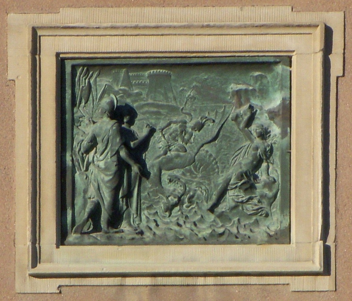 Relief on the southern facade of the Royal Palace in Stockholm by Réne Chaveau. Unknown motive, probably classical / mythological.